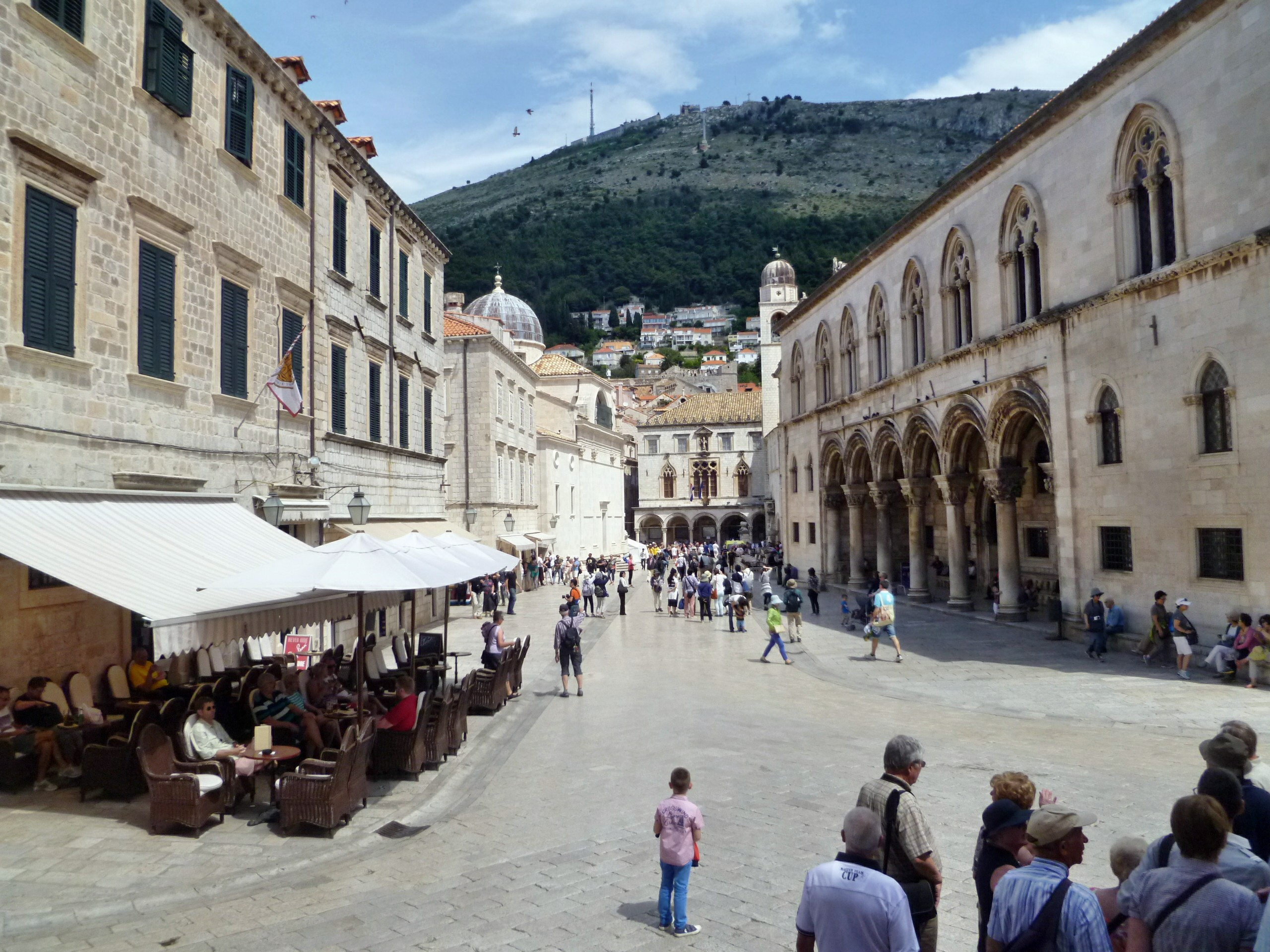 Square of the Loggia (Pred Dvorom), Dubrovnik, Croatia